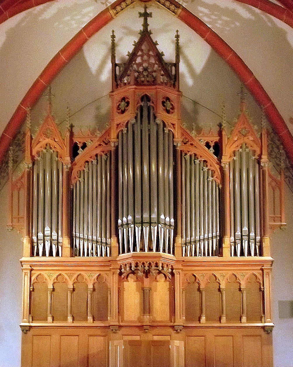 Interior of the roman catholic church in Lebach, Saarland, Germany